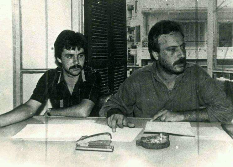 An old photo in the Union of Lebanese Democratic Youth with Hanna Gharib on the left and Walid Saab (deceased) on the right